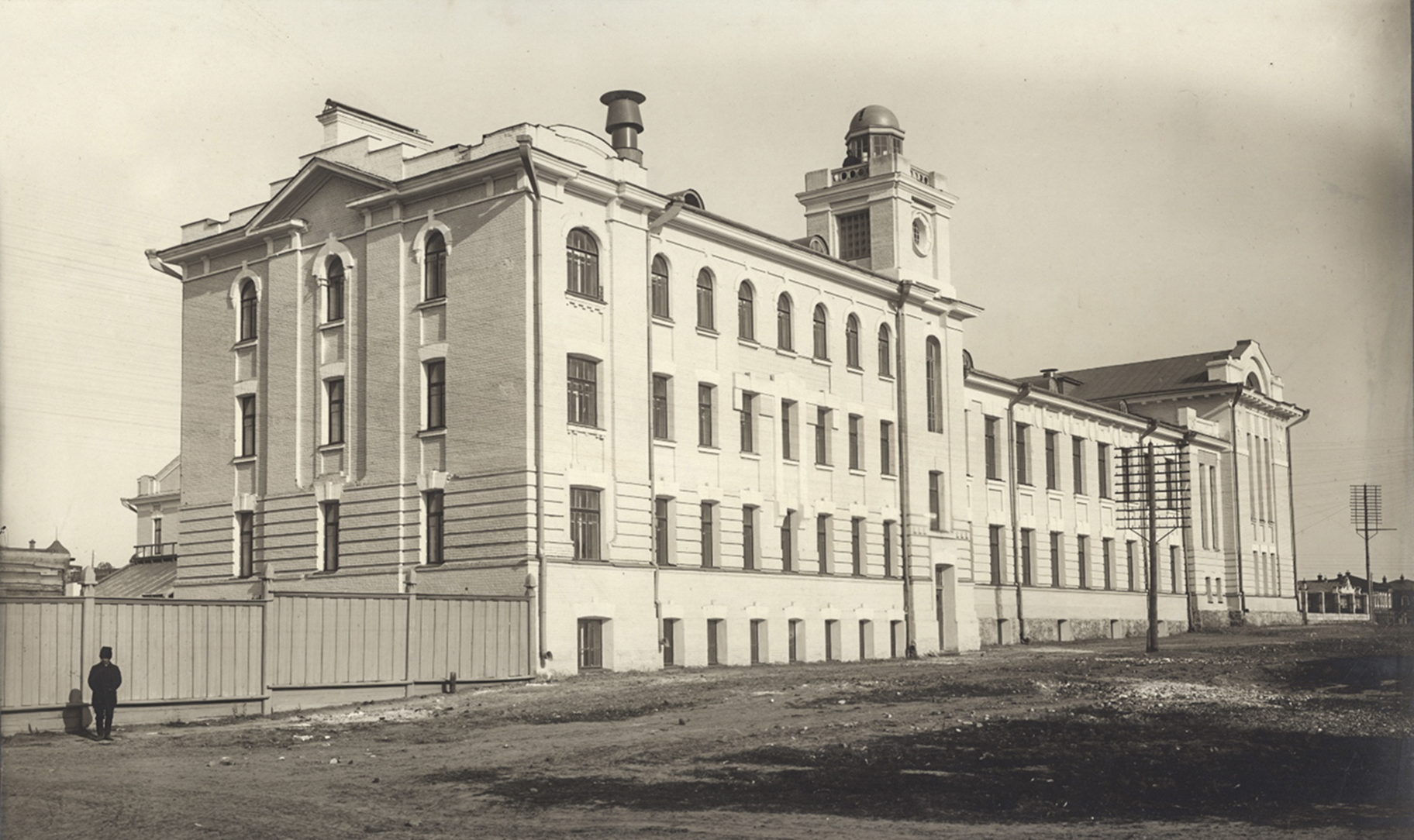 Real School named after the House of Romanov, Novonikolayevsk (current Novosibirsk), Russian Empire. View from Spasskaya Street (modern Spartak Street).